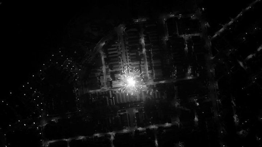 aerial fourth of july video still